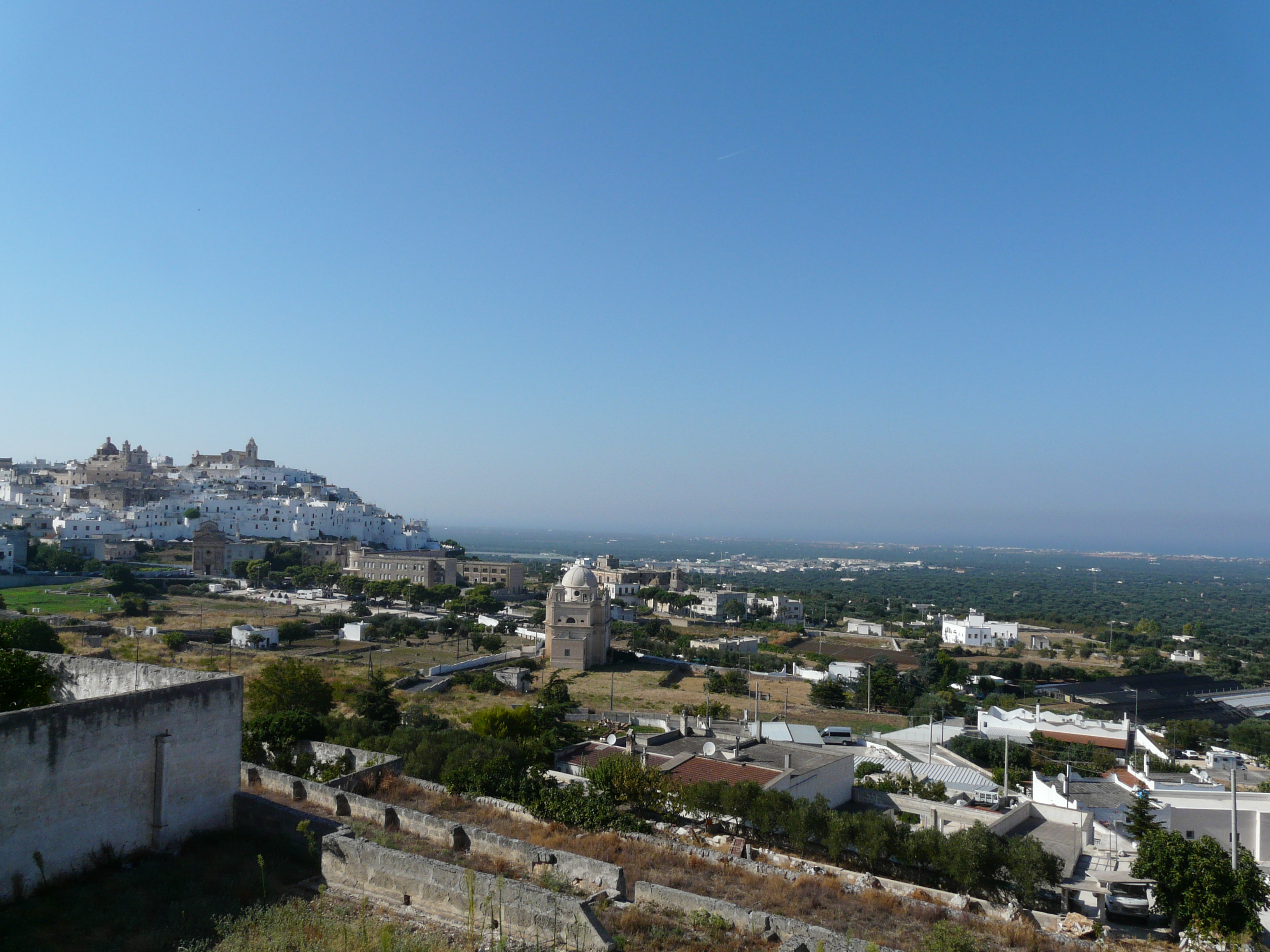 Ostuni (BR)